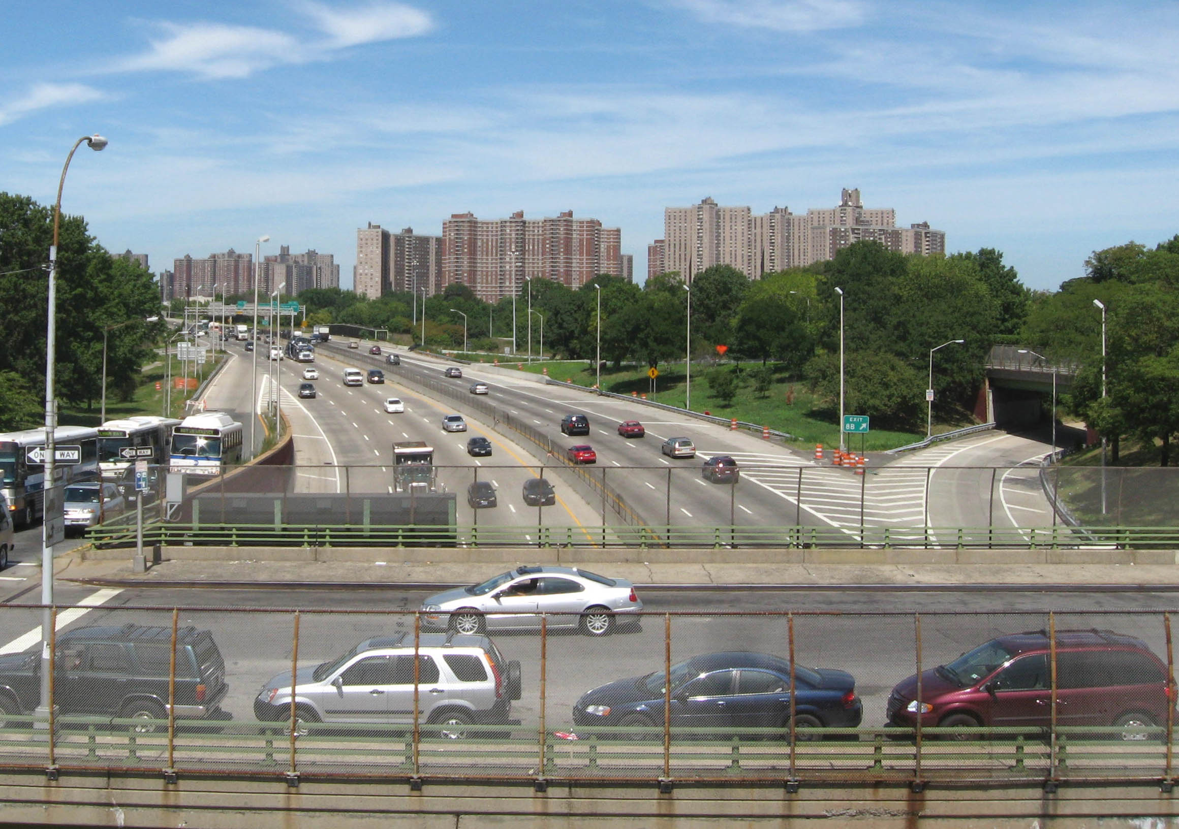 Looking north from pedestrian overpass of Pelham Bay Park terminal station of the 6 train at exit 8B of Bruckner Expressway on a sunny midday